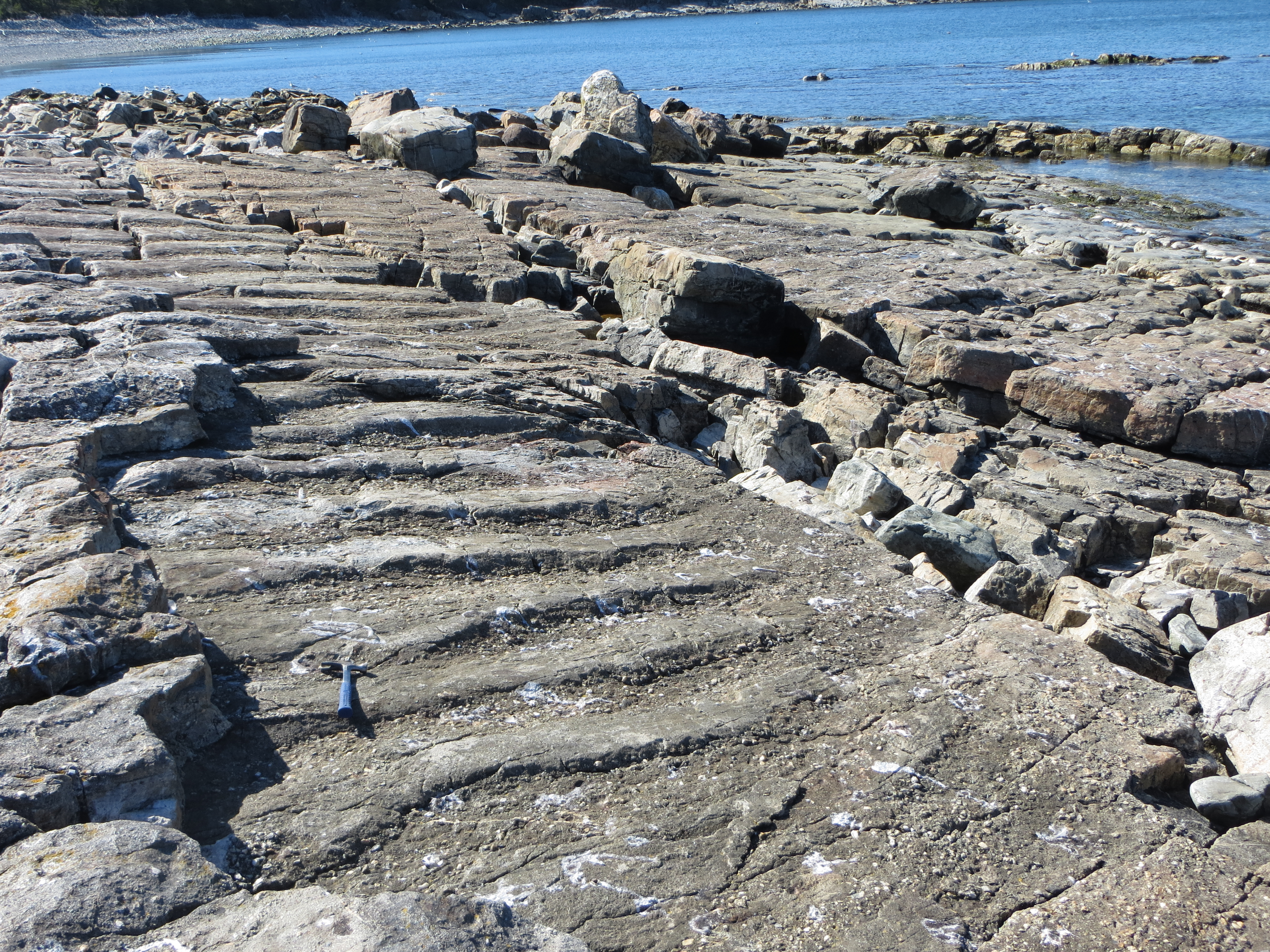 megaripples inthe Random Formation near Long Cove, Trinity Bay, NL